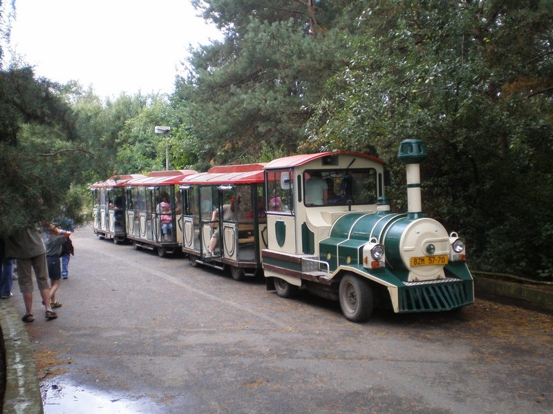 Zoopark Chomutov, train "Lokálka Amálka"